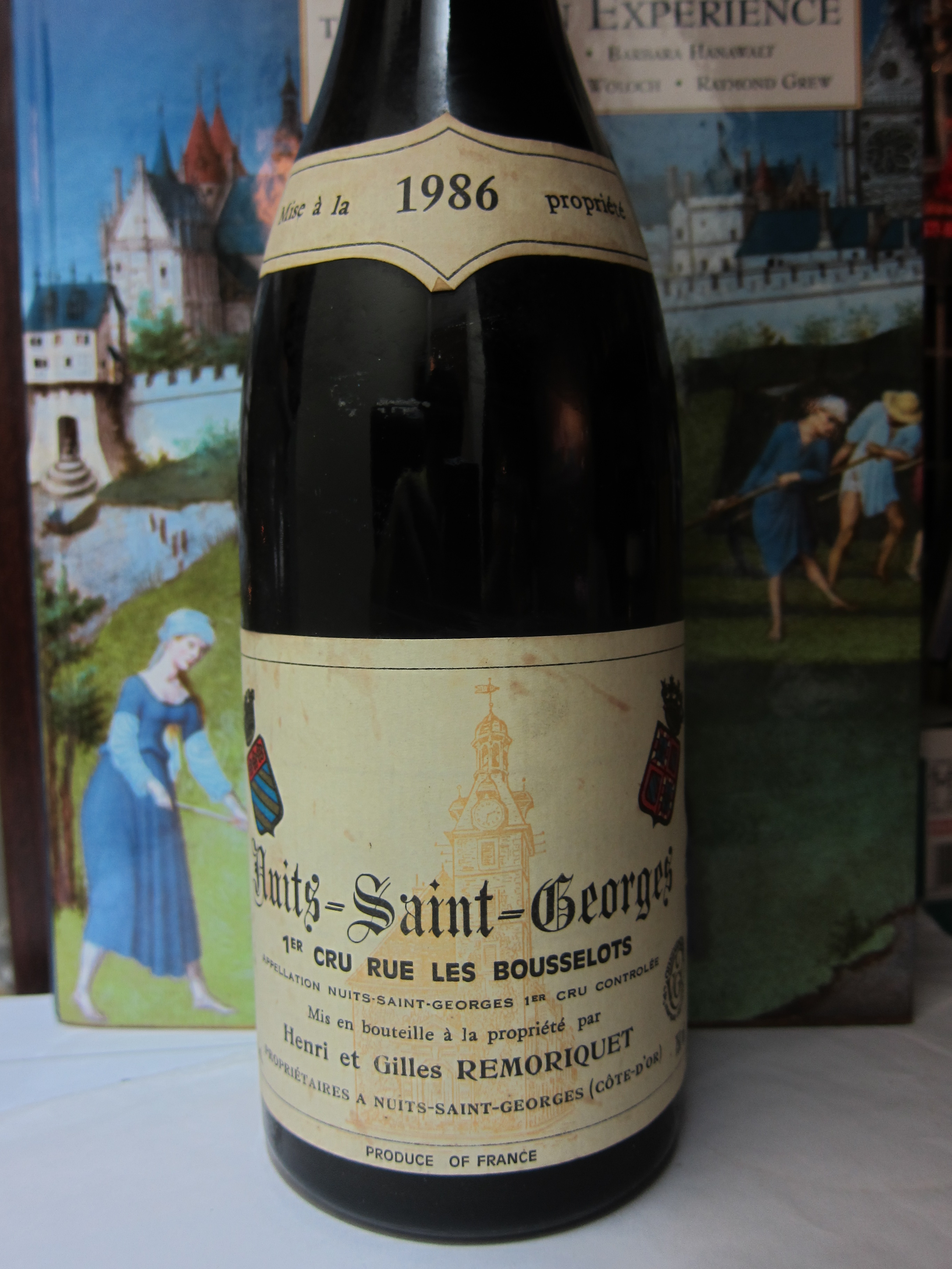 A bottle of 1986 Domaine H et G Remoriquet Nuits St Georges les Bousselots